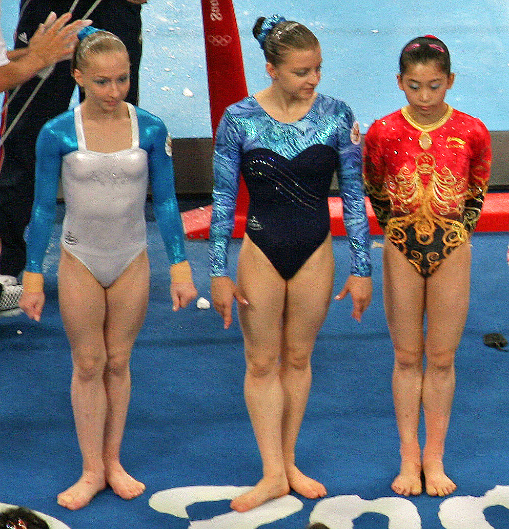 Anna Pavlova